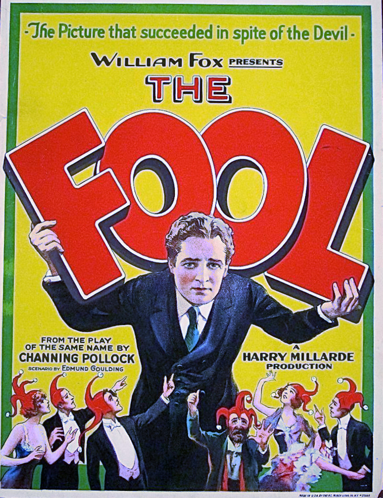 Window poster for the 1925 film The Fool.